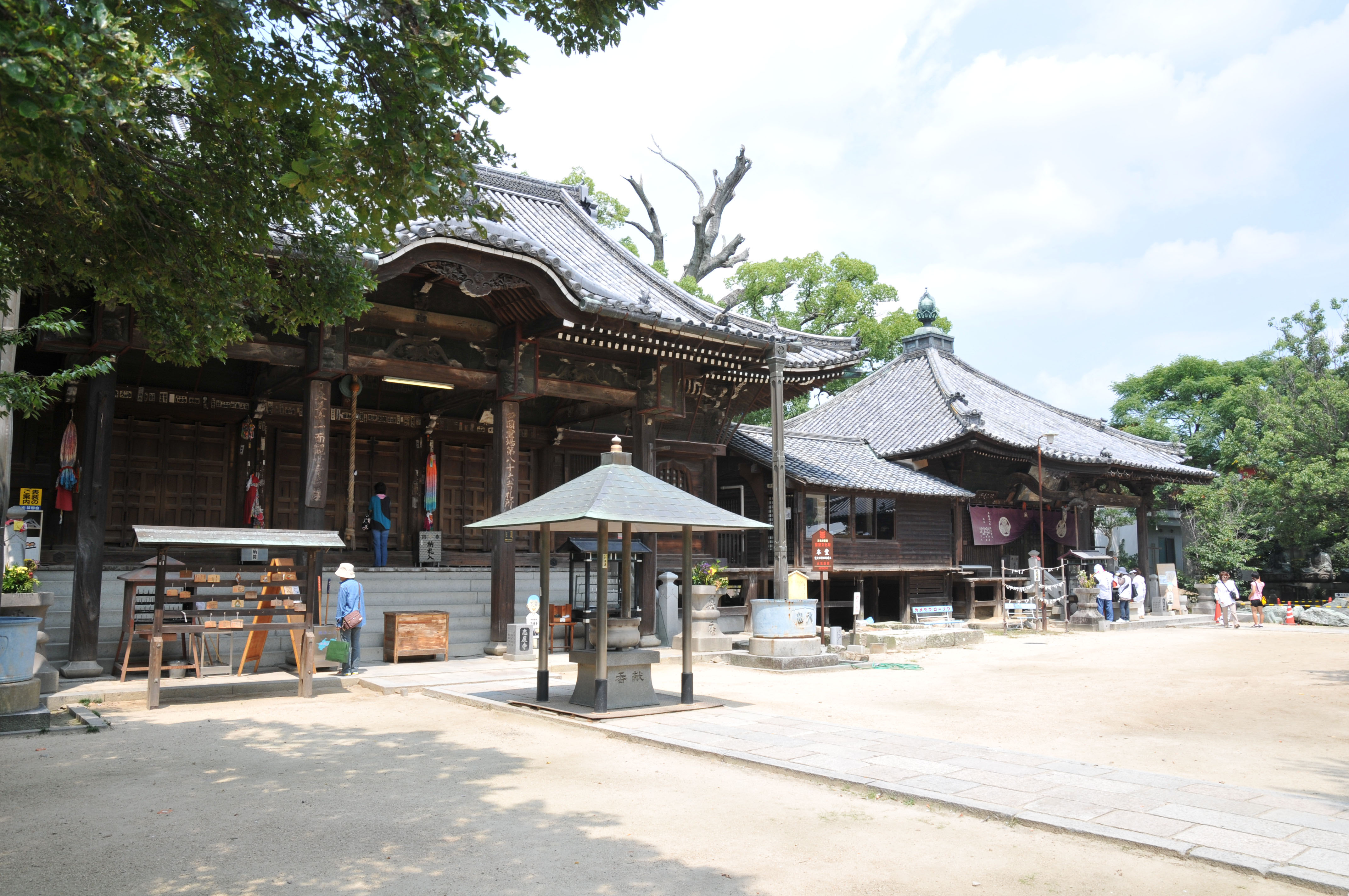 Main Hall (Japan's national important cultural property) and Daishi-dō, Shido-ji temple, Kagawa pref., Japan